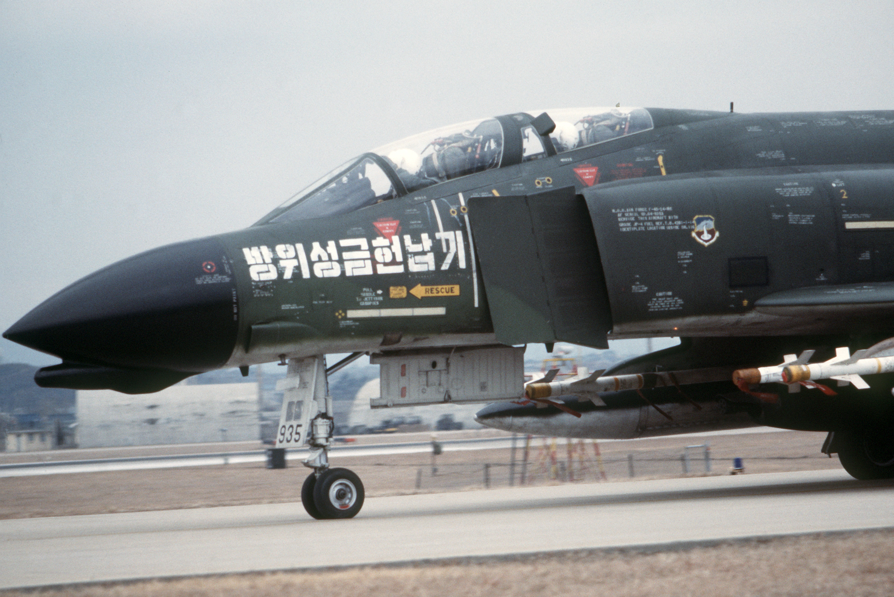 An a Republic of Korea Air Force McDonnell Douglas F-4D-24-MC Phantom II (USAF s/n 64-0935) armed with AIM-9 (J or P) Sidewinder air-to-air missiles taxis on the flight at Taegu Air Base on 30 January 1979.